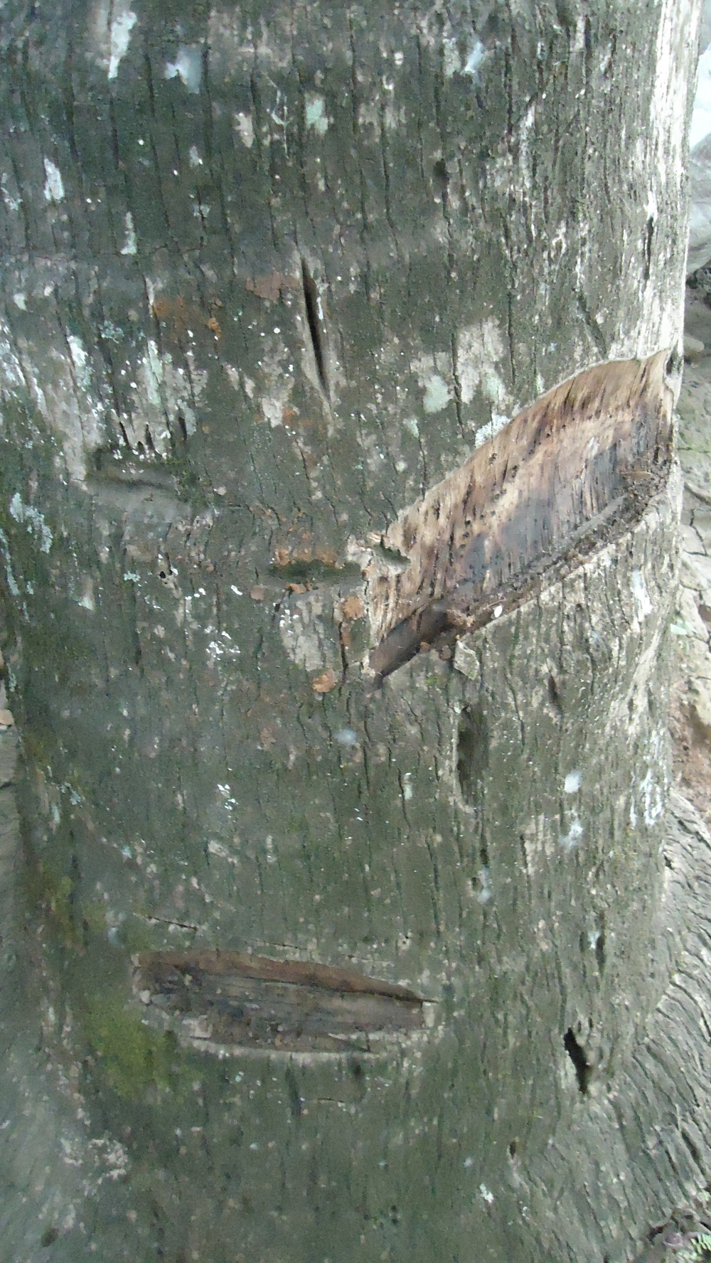 Notches cut into the coconut trunk to facilitate easier climbing and harvesting, Philippines.